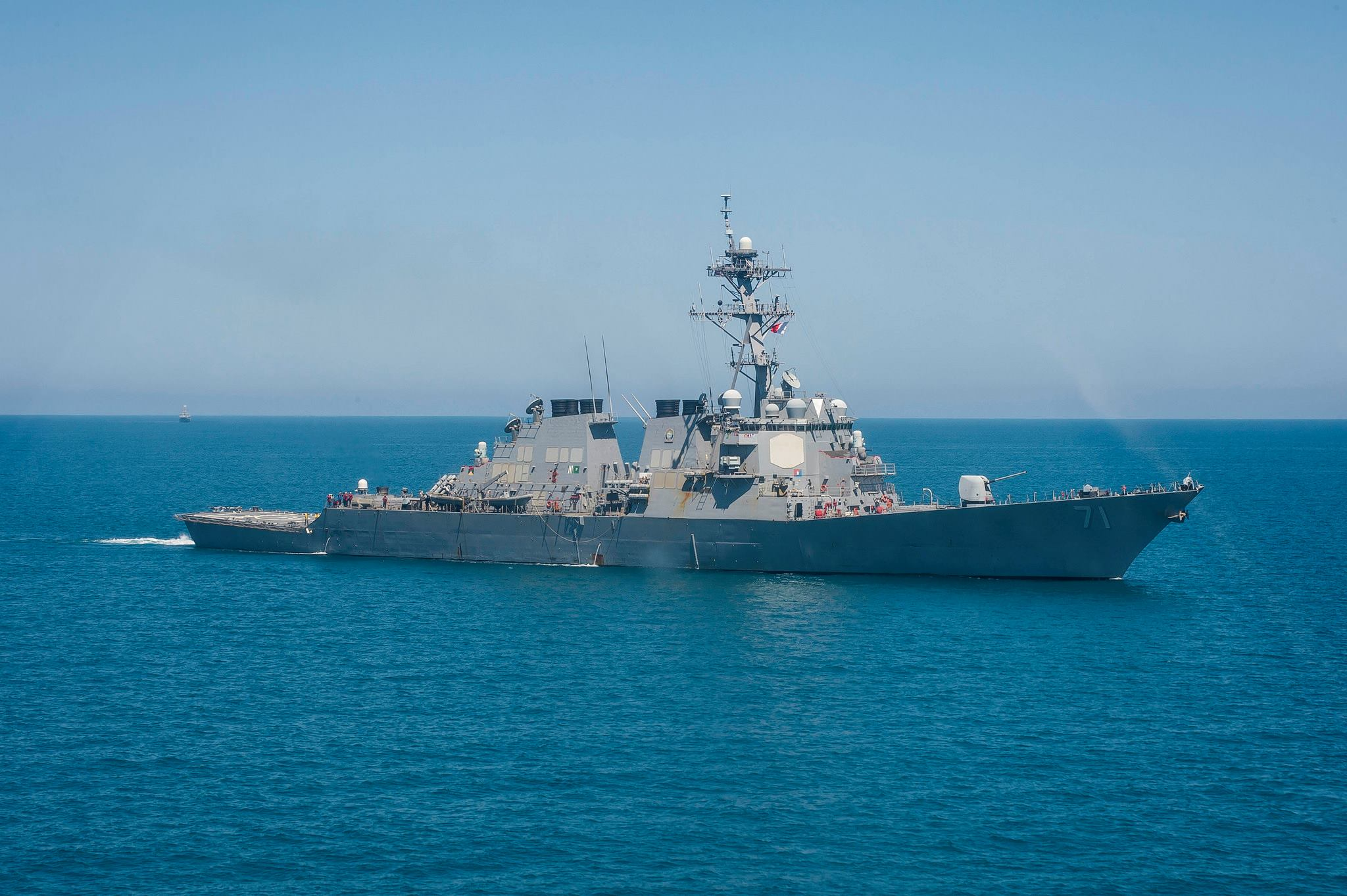 USS Ross Conducts Underway Exercise with Ukrainian Navy.